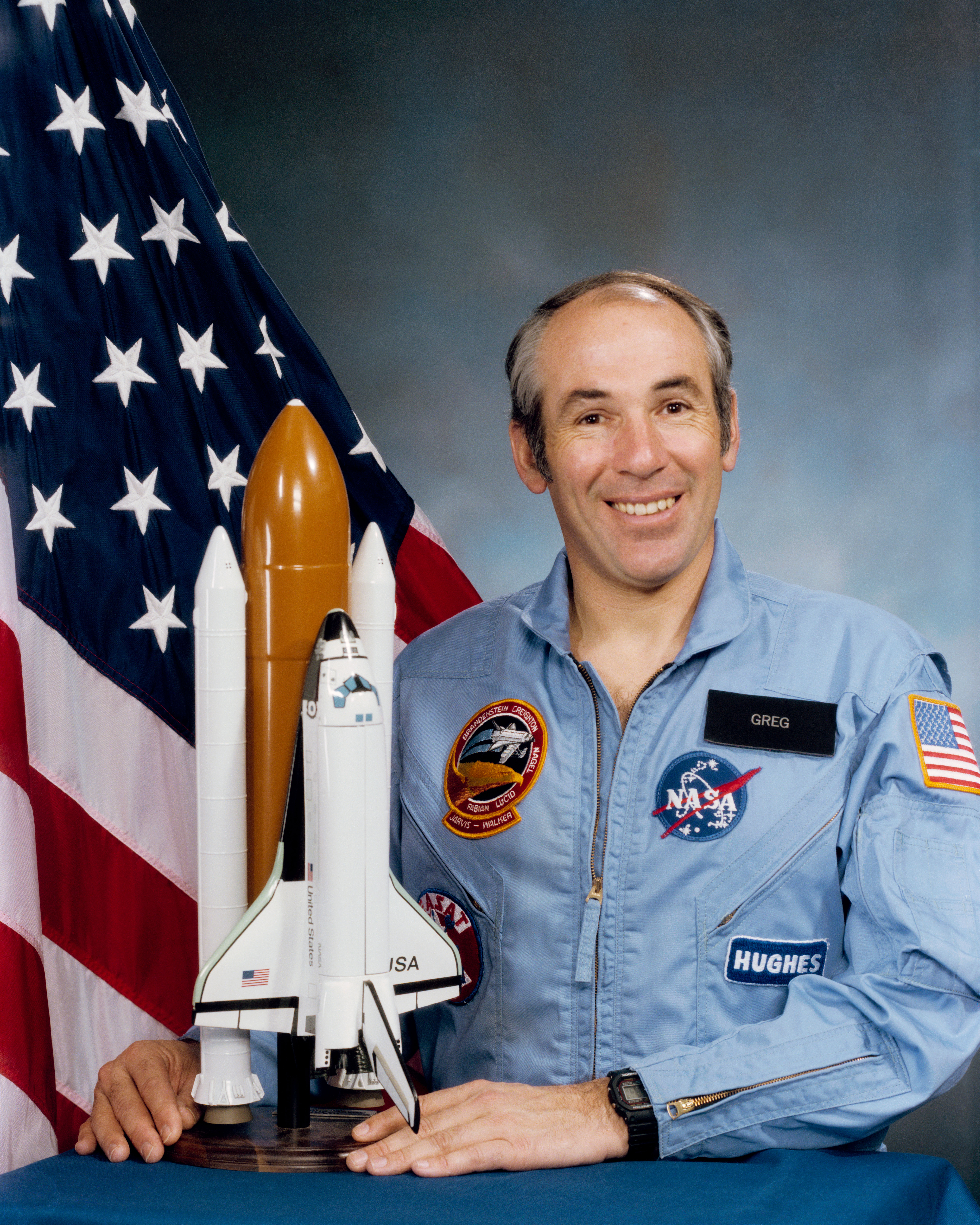 Astronaut Gregory B. Jarvis, payload specialist. (NOTE: Since this portrait was taken, Jarvis died in the STS-51L space shuttle Challenger explosion, on Jan. 28, 1986.)